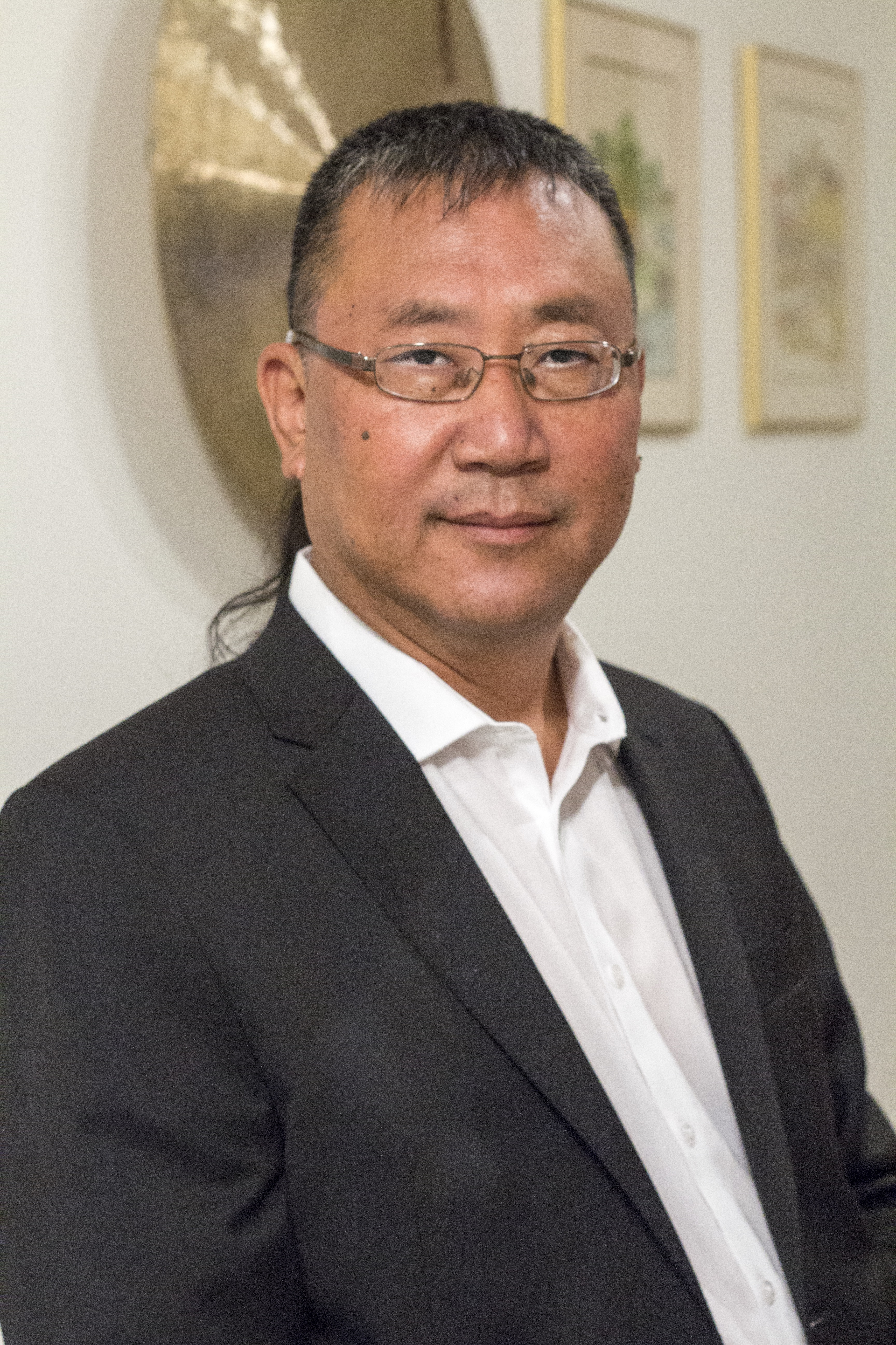 Portrait of Professor Chang Kee Jung taken in his home on Long Island.